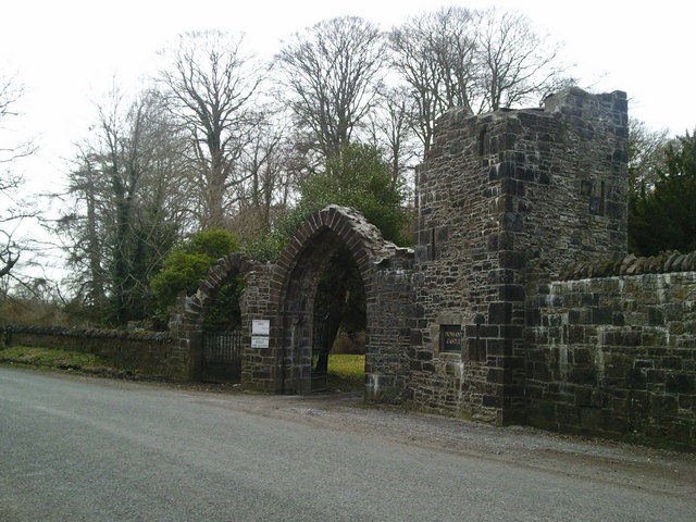 Gate, Dunsany Castle, Co Meath Old gate and entrance to Dunsany Castle and grounds. Dunsany Castle is still inhabited by Lord Dunsany, of the Plunkett family, who have been major landowners here for over 400 years.